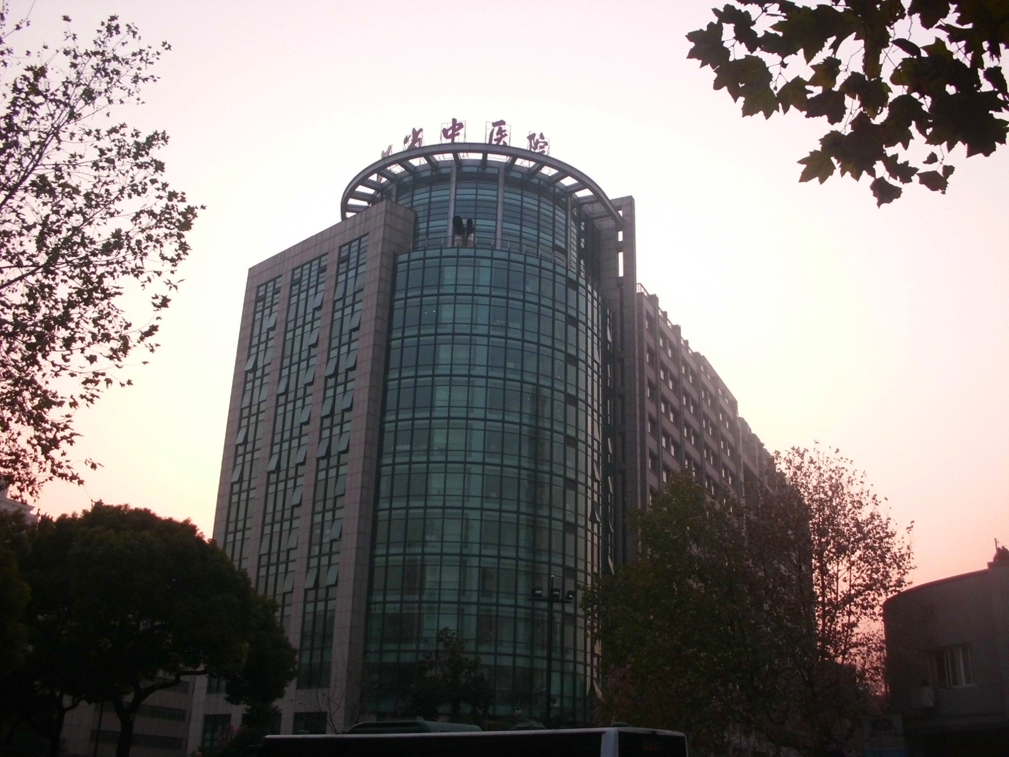 Chinese medicine hospital of zhejiang province